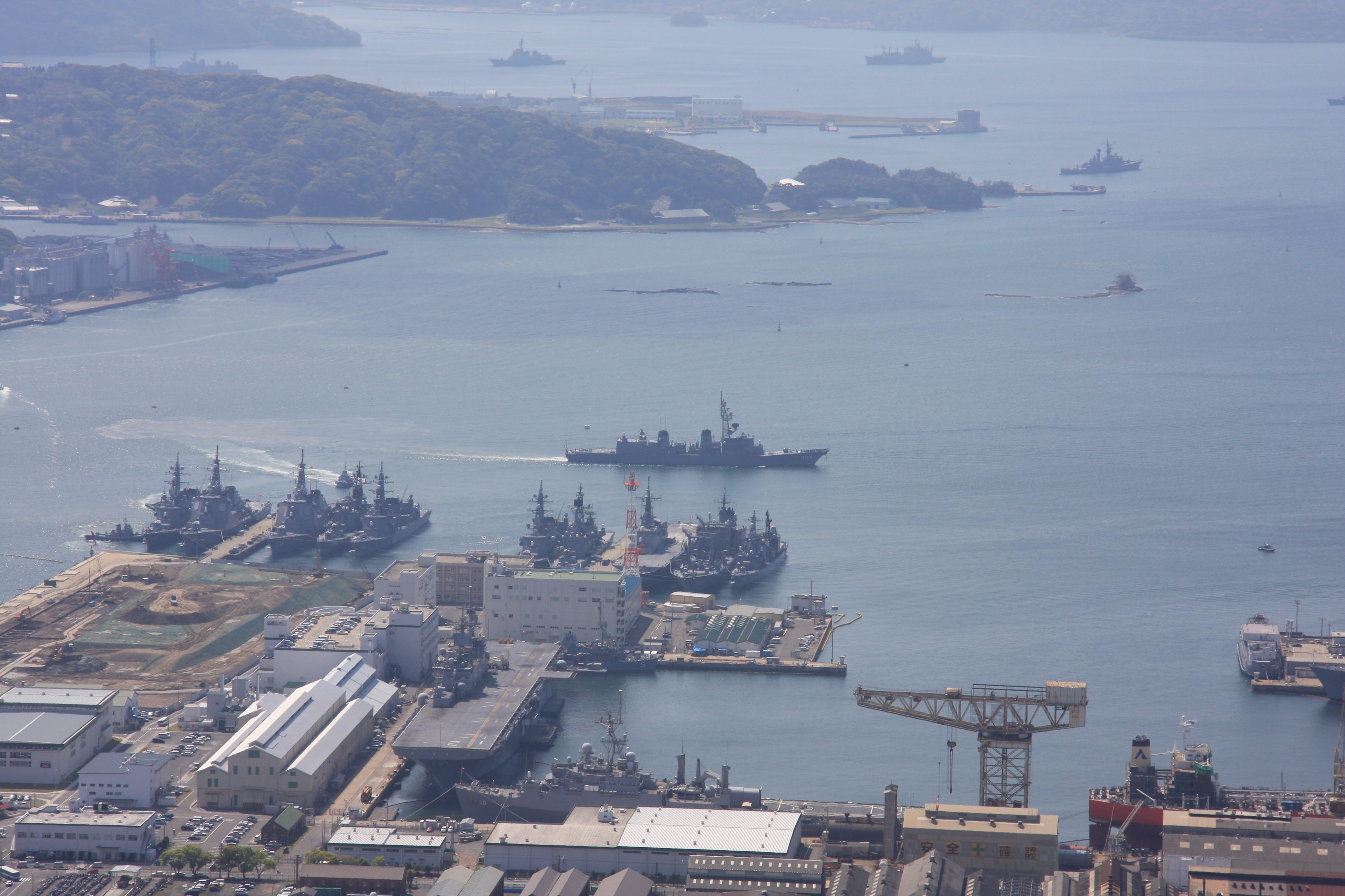 DD109 Ariake was leaving Sasebo port in JMSDF ships gathering every three years.